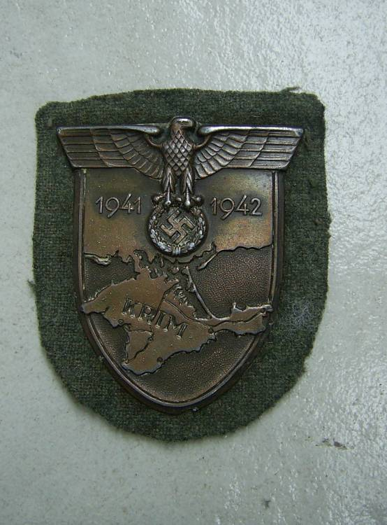 The German Krimschild